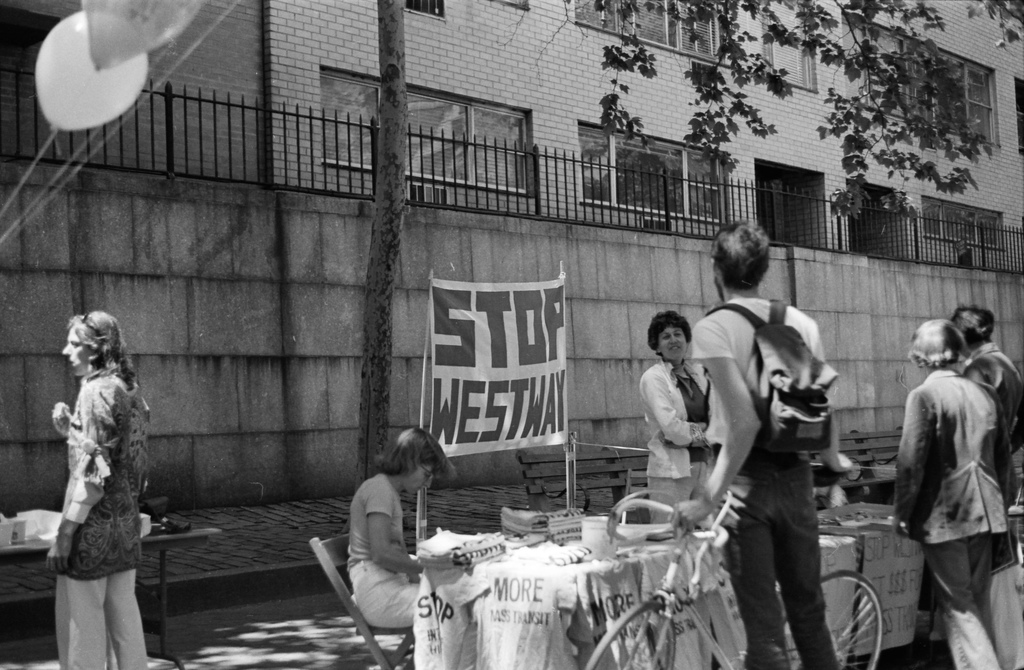 People demonstrating against the Westway highway project, New York City, July 6, 1977. Photograph by Robert Swirsky.